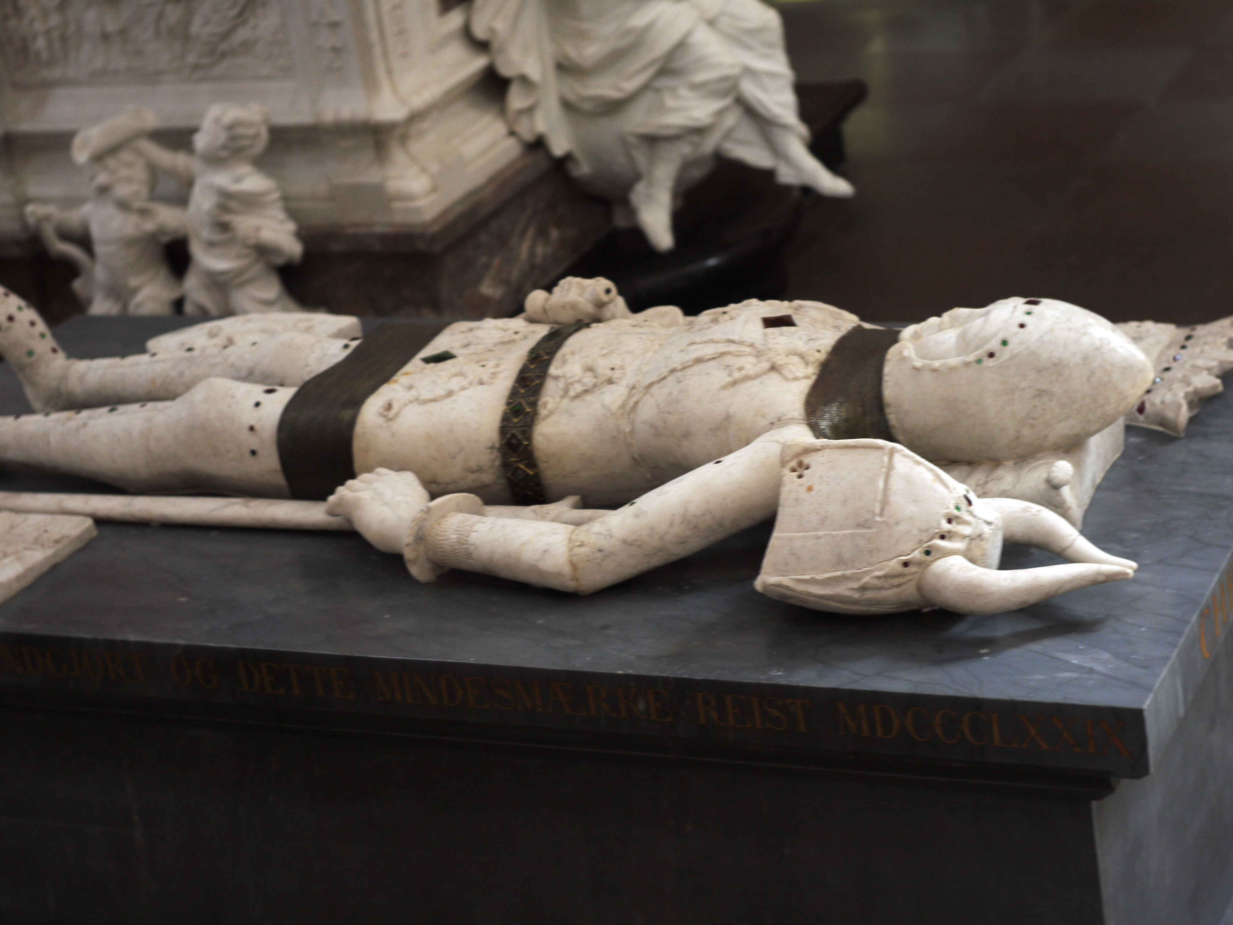 Roskilde, Denmark, shot with a Panasonic Lumix G1 equipped with a Voightlander Nokton 40mm Leica M-mount lens. Medieval Danish Royalty Laid to Rest; Christopher of Denmark, Duke of Lolland